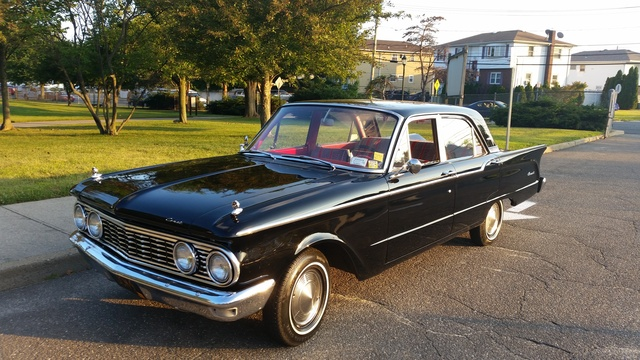 1961 Comet black 4 door